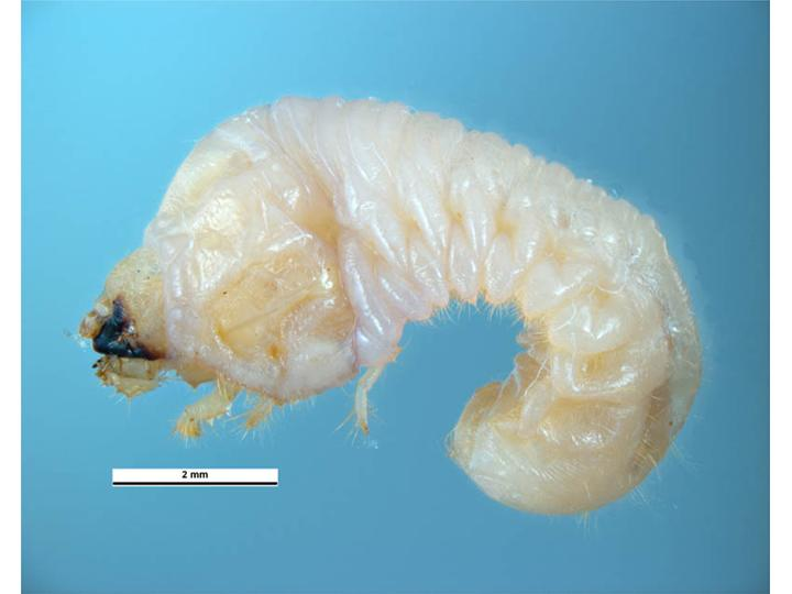 Heterobostrychus aequalis larva. Location: Malaysia